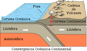 Plate tectonics: convergence of an oceanic plate and a continental plate.